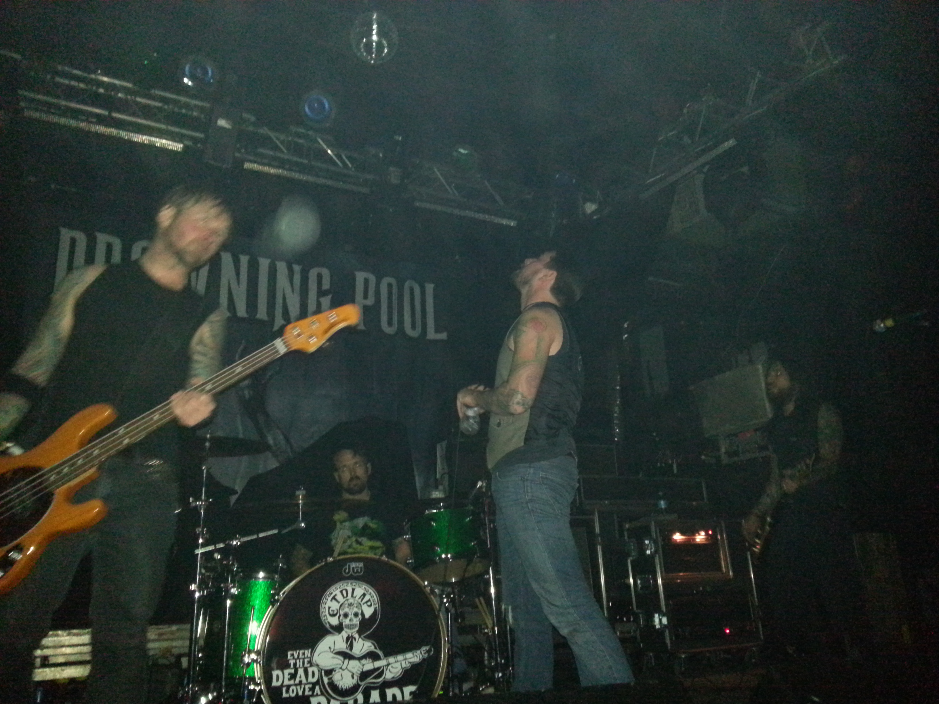 Heavy Metal Music ensemble Even the Dead Love a Parade